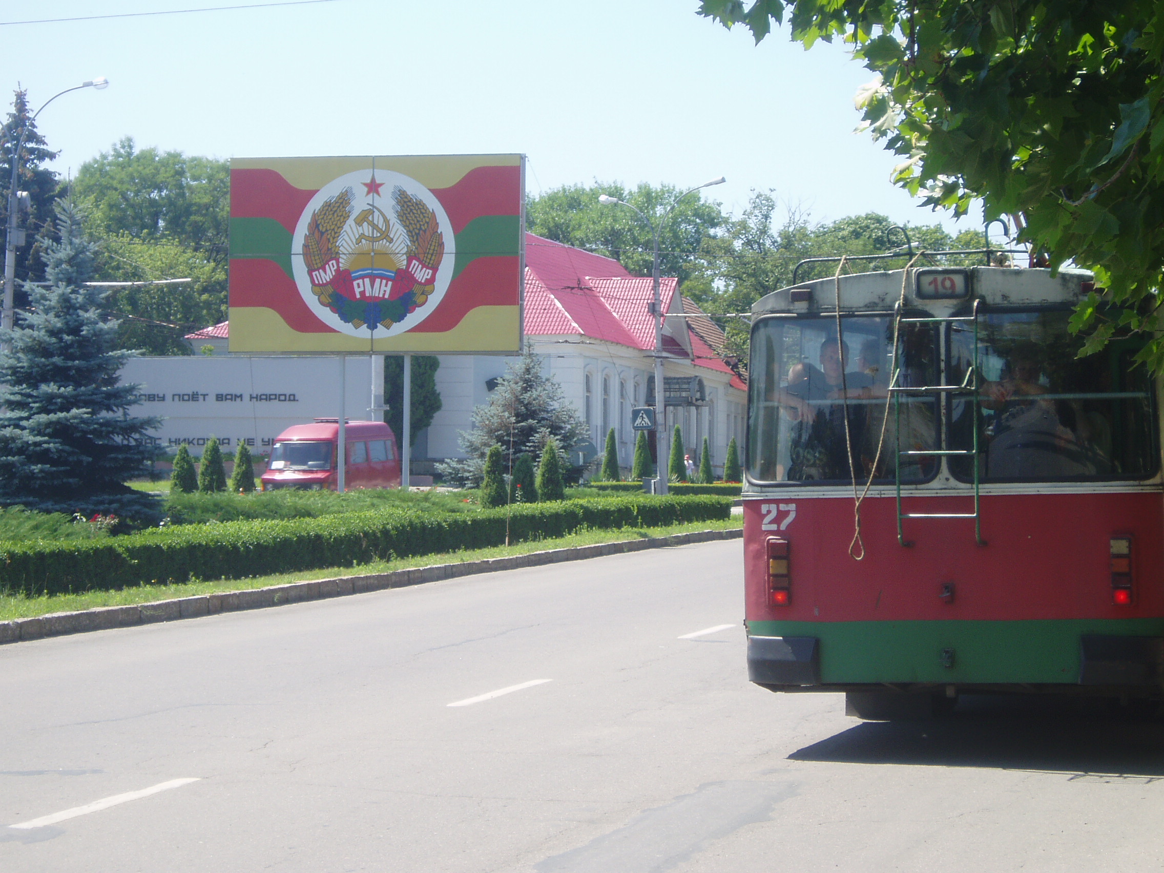 Even the trolley buses of Tiraspol are patriotic. In Tiraspol, Transnistria, Moldova.